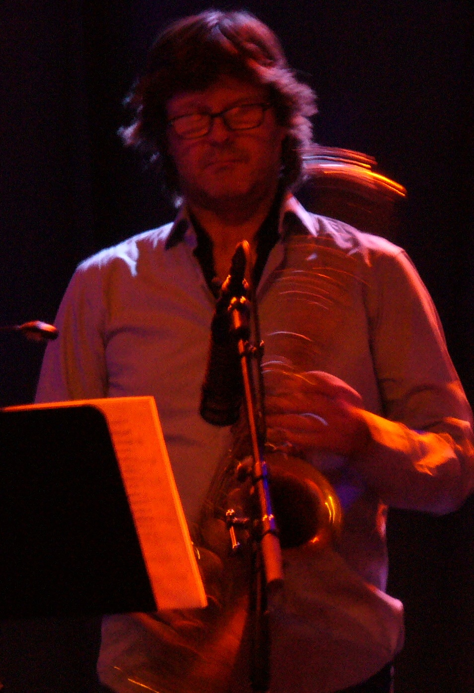 Kåre Kolve at Vossajazz April 13, 2014